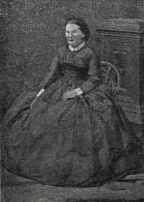 Klára Leövey